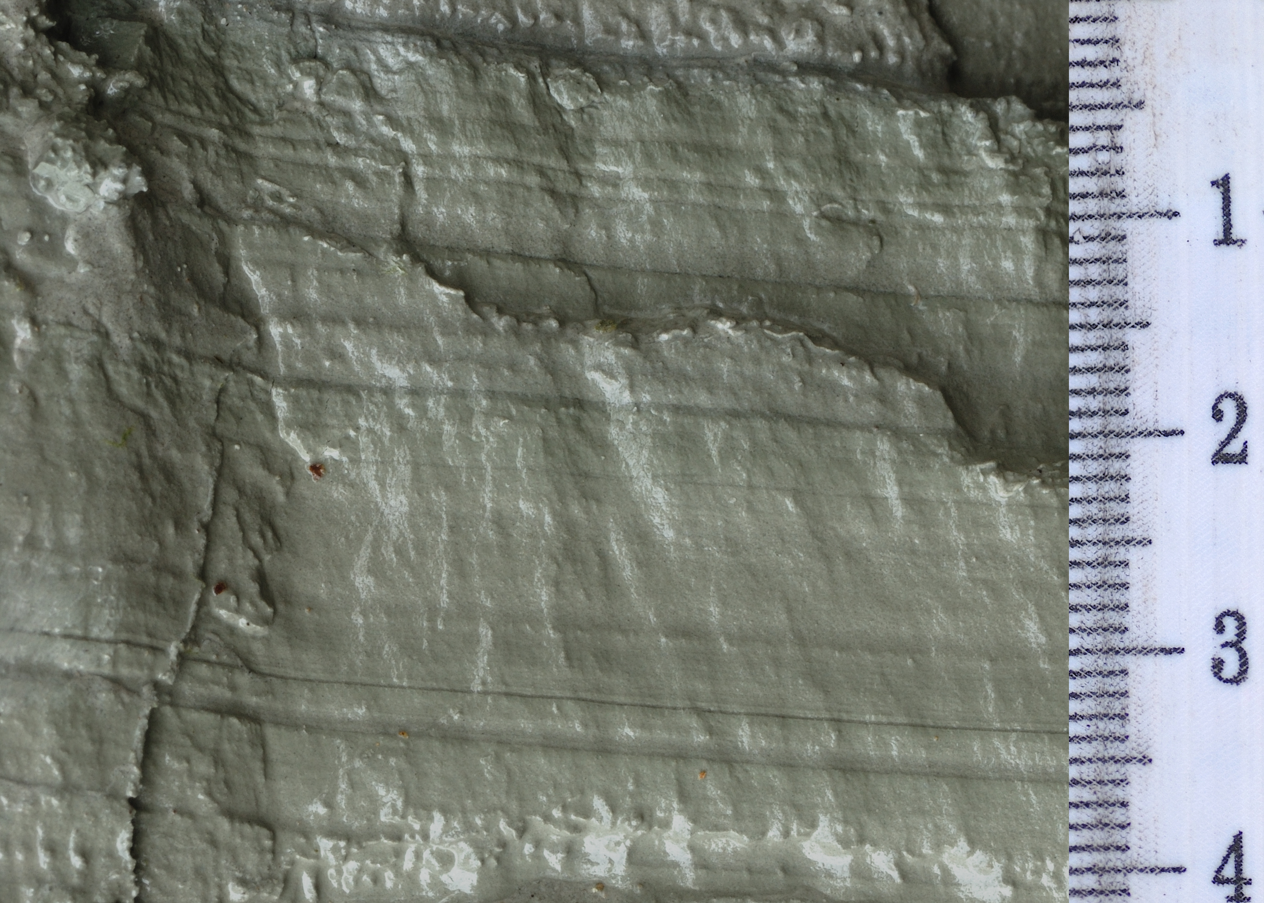 Pleistocene varved clay near Baumkirchen, Tyrol, Austria